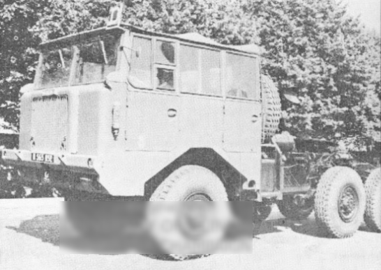 TBU15 tractor, a prime mover for semitrailes, front oblique view from the left side